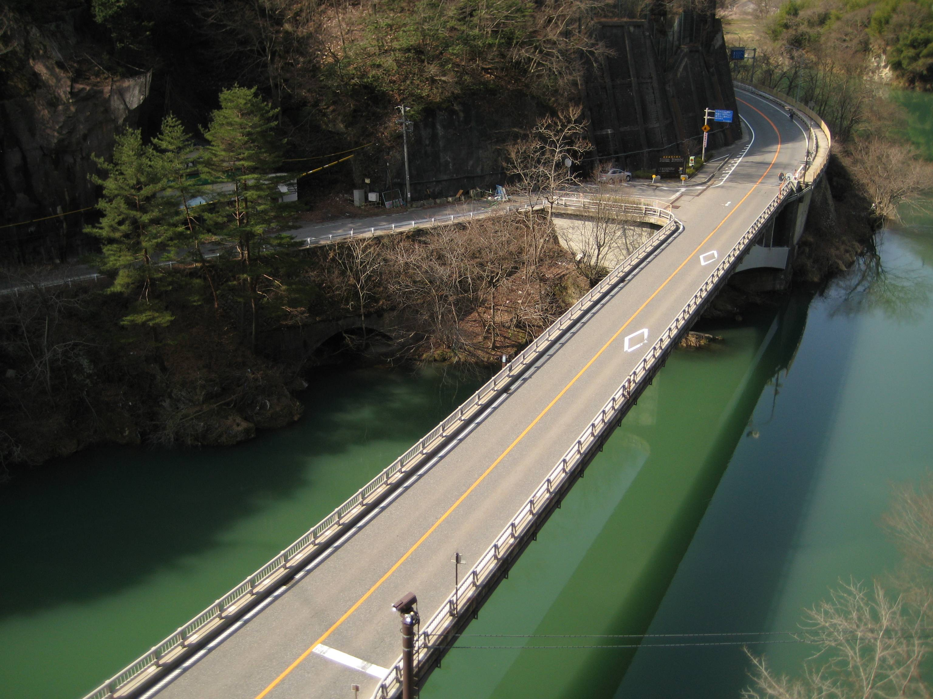 Shinsanseijibashi-bridge.